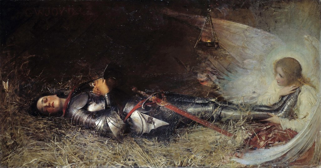 Sleeping Joan of Arc (Joan of Arc on her way to Reims)